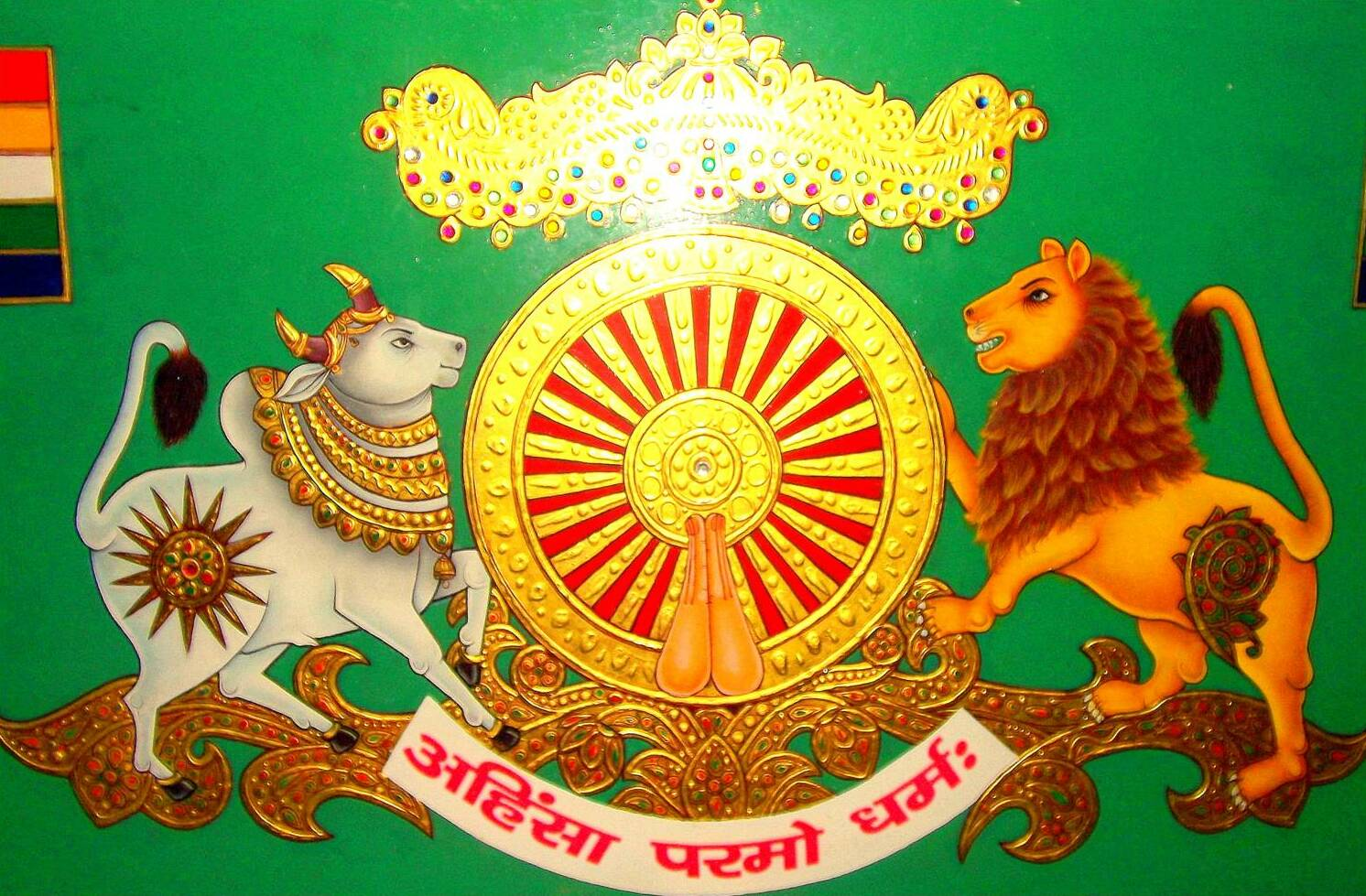 Sculpture depicting the Jainism's message: "Ahinsa Parmo Dharm" (Photo:Jain temple, Tijara Ji, Alwar, Rajasthan)